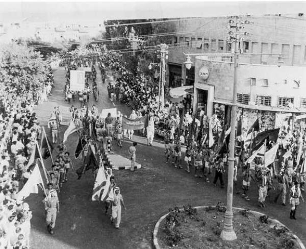 Israeli Arabs' May Day march in the 50ies.